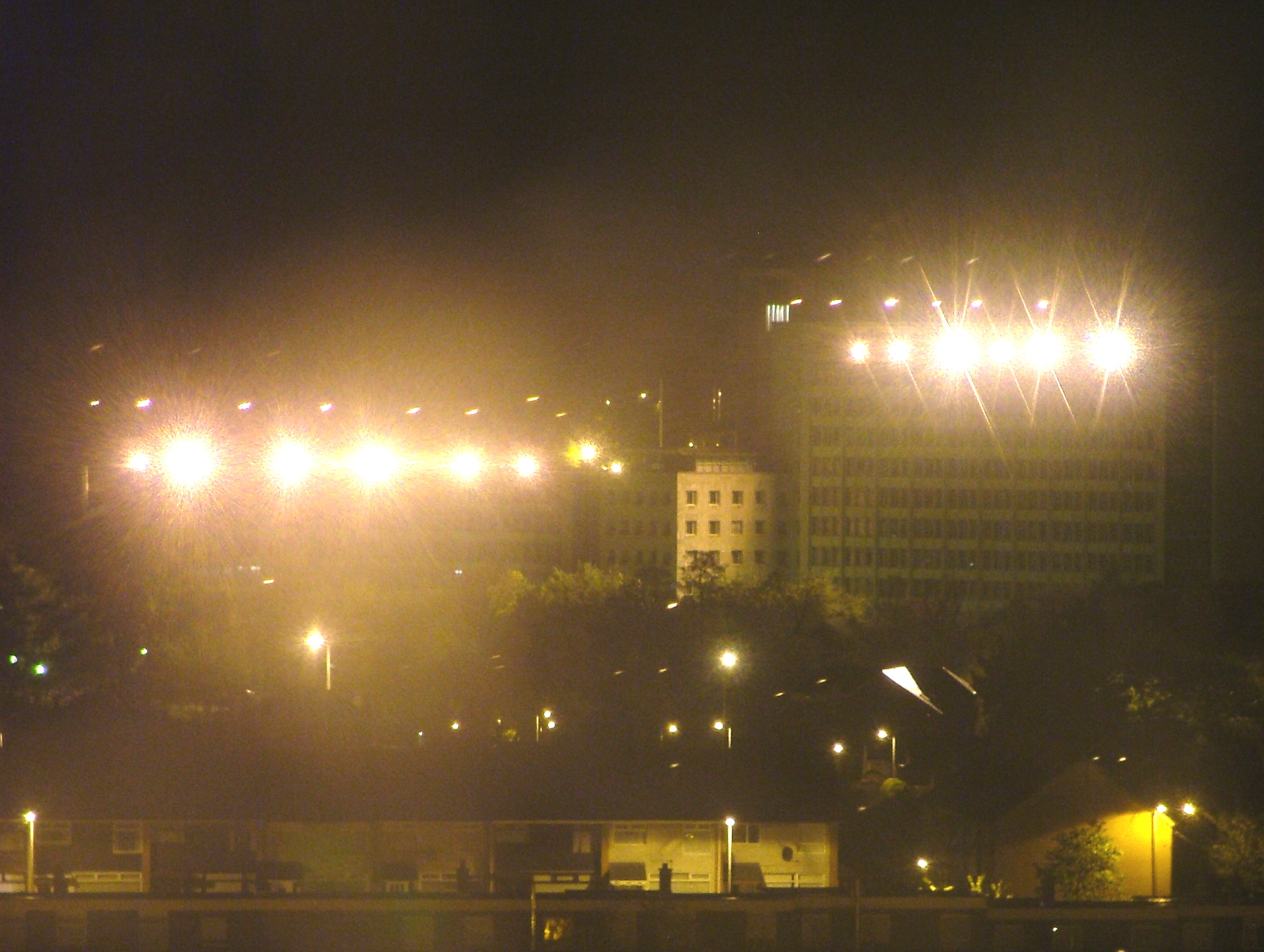 This is Dundonald House, a government building belonging to the Northern Ireland Office, which is used by the Civil Service. Shot by night time, daytime coming soon.